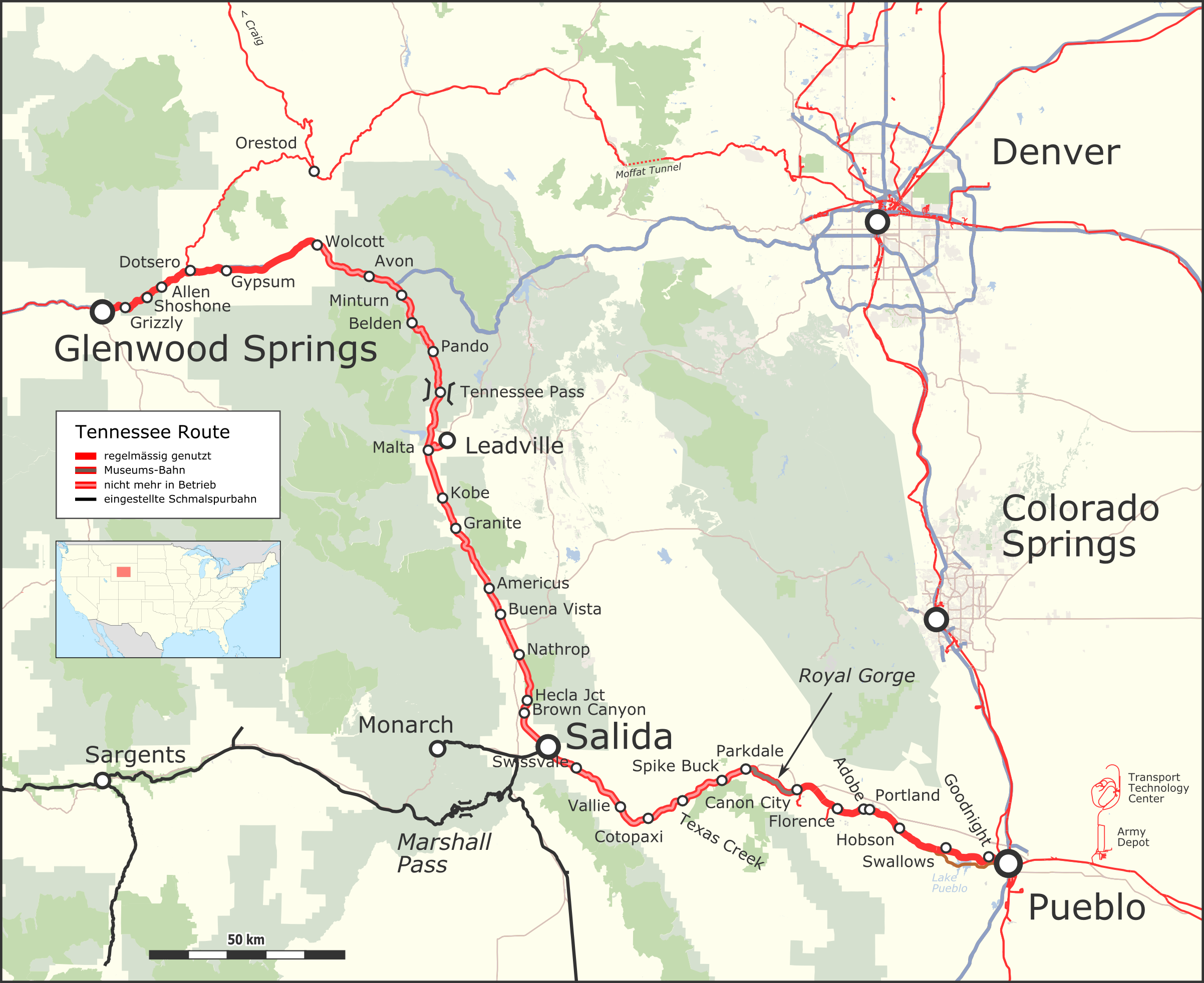 Map of Tennesee Route. Map key in German. Station shown on the section not anymore in service as they were in use when service was stopped.